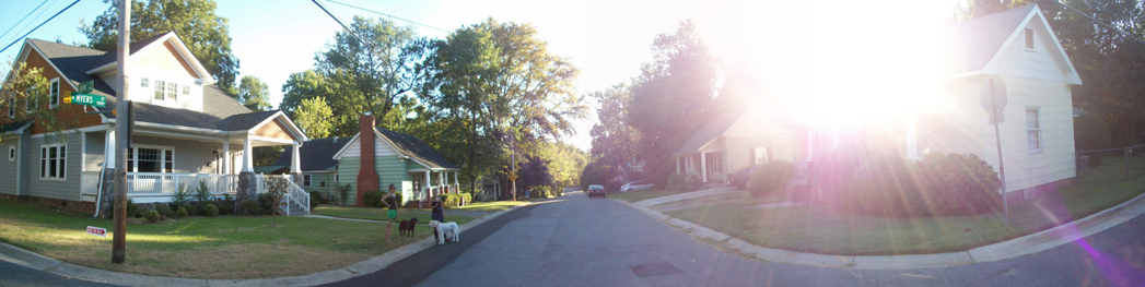 North Charlotte's Neighborhood in Highland Mill Village Houses